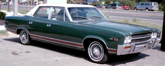 1969 Ambassador SST four-door sedan by American Motors Corporation (AMC) with the 343 CID (5.6 L) V8 engine finished in "Willow Green Metallic" (paint code P75) with a white top and factory optional wire wheel covers.